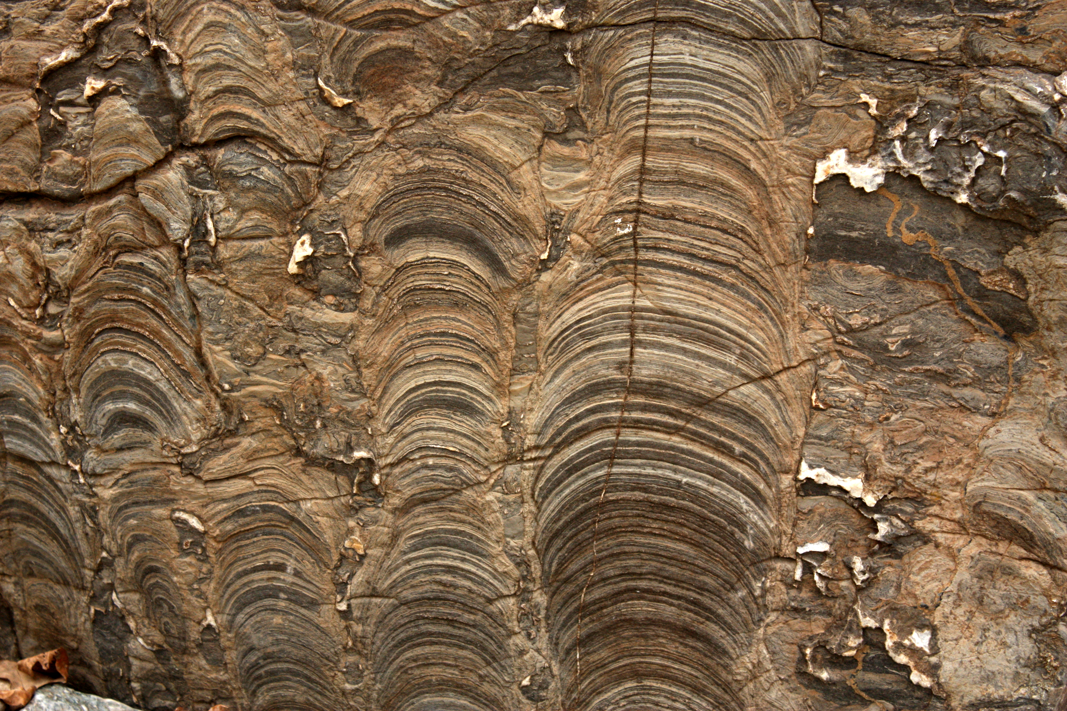 Stromatolites fossils in a glacial erratic droped in the Parc des Laurentides, near Laterrière. It came from Albanel Lake, North-East from Chibougamau, Québec. The piece of rock now belongs to the Geological Garden of Université Laval, since its donation by Jean-Guy Belley in 2003.